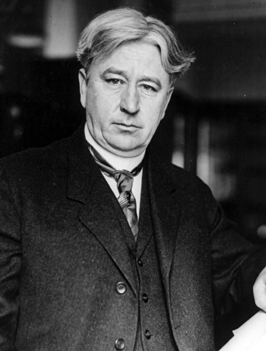 Charles B. Landis, US Representative from Indiana